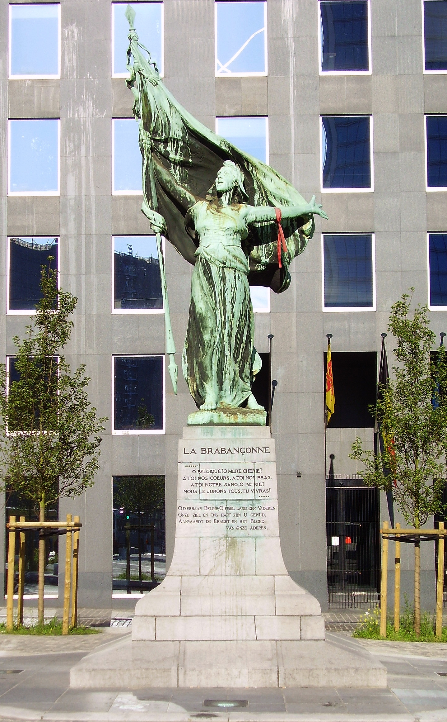 Description: Place Surlet de Chokier (Brabançonne), Bruxelles Author: User:Ben2 photo Date of creation: 17 juin 2006 Source: Photo personnelle